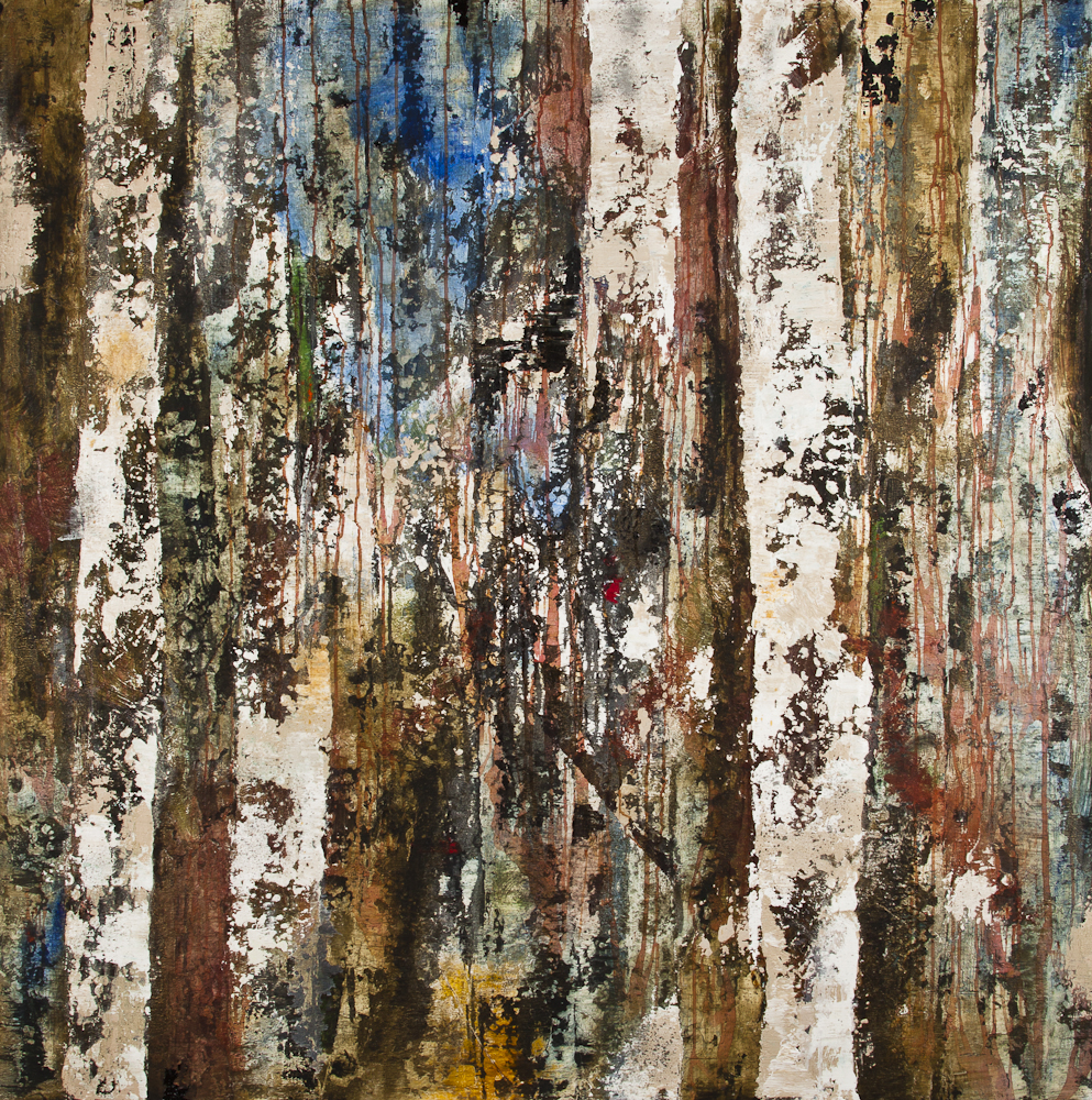 Painting by Adam Shaw